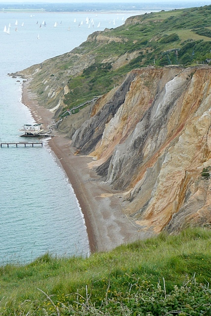 Oldest to youngest The famous Alum Bay, with its coloured sands. Geologically, all these sands are rocks laid down in succession on top of the chalk, from about 60-30 million years ago. Each is a different marine deposit coloured by different minerals that they happened to encounter at the time. About 10 million years ago, during the continental drift that made the Alps and the Himalaya, the strata were folded and pushed vertically. Underneath the sea floor they turn horizontally again, under the Solent, and surfacing in various places in England. The sands were commercially collected during Victorian times for use in china and glass making. These days, access to the beach is limited, but there is a cable car down from the Needles Park (aka overpriced tacky grockel rip off place) to the jetty from where one can take a boat to see the Needles at close quarters. In the background of this picture the Round the Island yacht race is taking place.